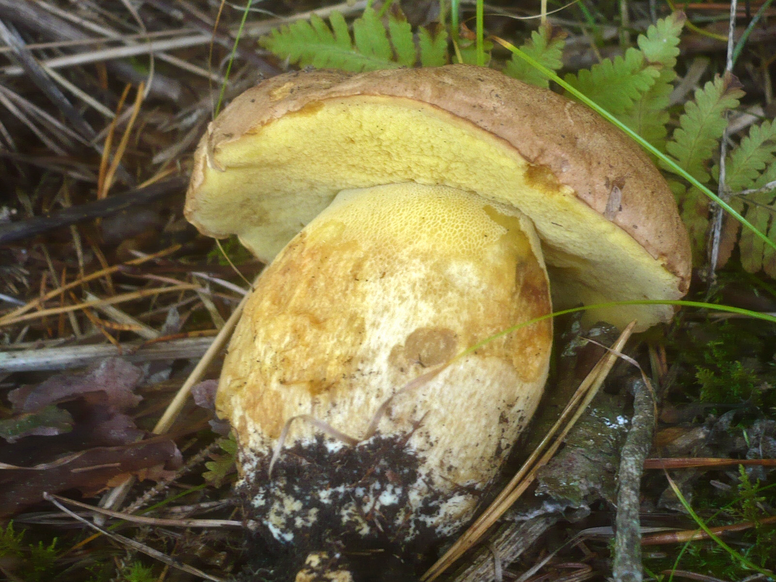 Boletus subappendiculatus, Raning, Walstern, Bezirk Bruck an der Mur, Styria, Austria